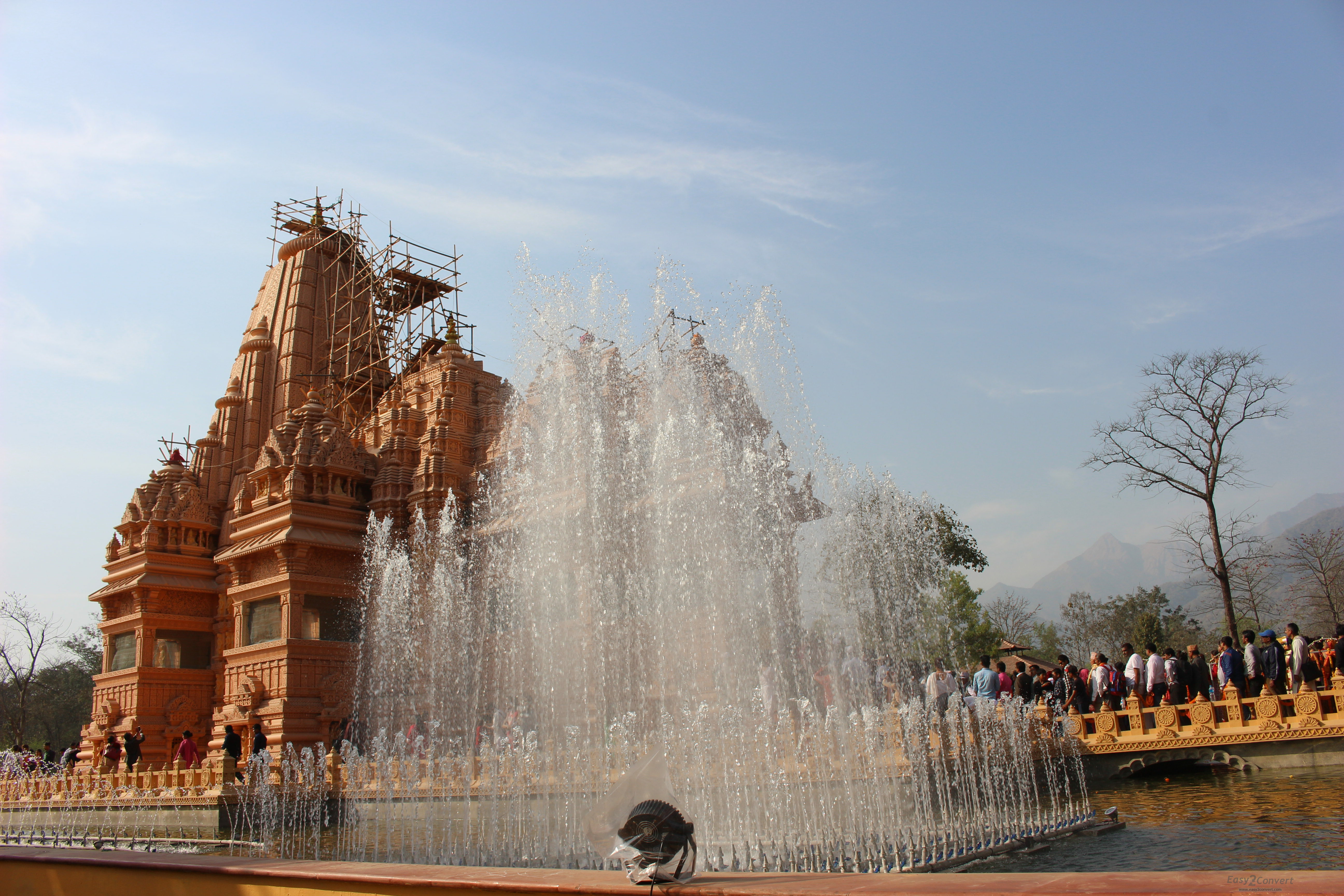 Spiritual and Religious Center Shaswat Dham ,Inaugurated In Nawalparasi nepal, Dham made by binod chaudhari. Chaudhary, Nepal's first billionaire and the chairman of the Chaudhary Group. नेपाली: पुर्व पश्चिम राजमार्गको मध्यभागमा पर्ने नवलपरासीको देवचुलिमा रहेको चौधरी उद्योग ग्राम परीषरको यो मन्दिर निकै शुन्दर र आकर्षण रहेको छ